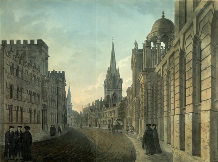 Colored aquatint of High Street, Oxford, showing University College in the left foreground, the cuppola of Queen's College, right foreground, and farther down the curving street, the spire of St Mary's Church